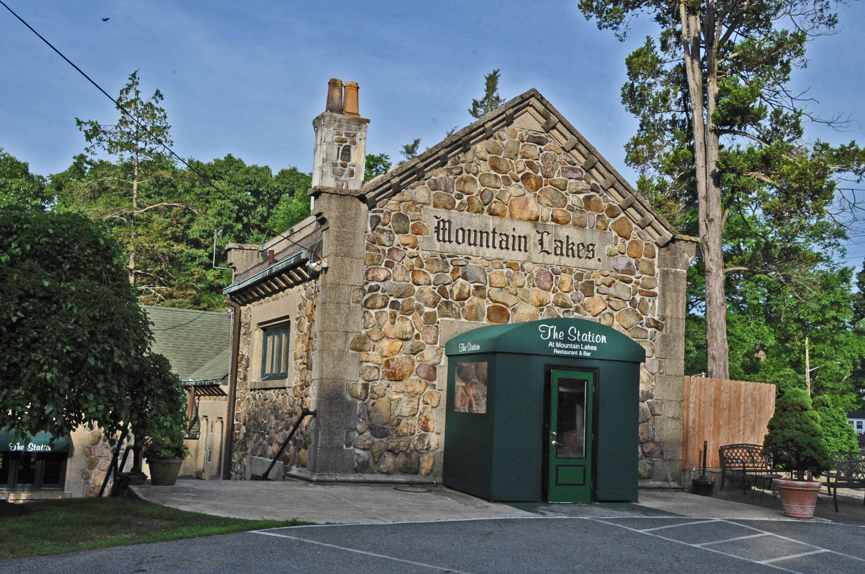 RAILROAD STATION IS A KEY STRUCTURE IN THE DISTRICT; WAS BUILT IN 1912 ON PROPERTY ONCE OWNED BY HERO BULL, A FORMER SLAVE. THE STATIONS CORNERSTONE WAS LAID BY SUFFRAGIST BELLE DE RIVERA. THE ARCHITECTURE OF THIS STATION IS AN ADAPTATION OF THE “JACOBETHAN” STYLE (COMBINING ELIZABETHAN AND JACOBEAN INFLUENCES) AND IS EXECUTED IN STONE RUBBLE. THE STATION BURNED IN 1915 AND WAS REBUILT 1919. IT IS NOW FUNCTIONING AS A RESTAURANT